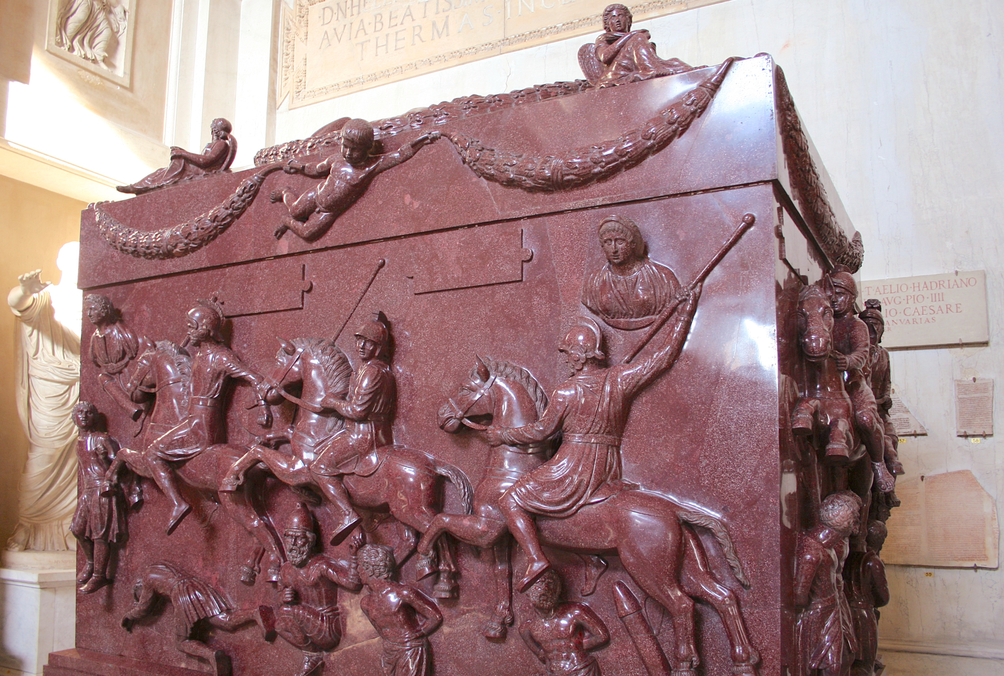 Sarcophagus of Saint Helena (mother of emperor Constaninus I, also known as Saint Constance), sculpted around 340 AD. Formerly in the Basilica of St. John Lateran in Rome. It is now on display at the Museo Pio-Clementino in the Vatican City.